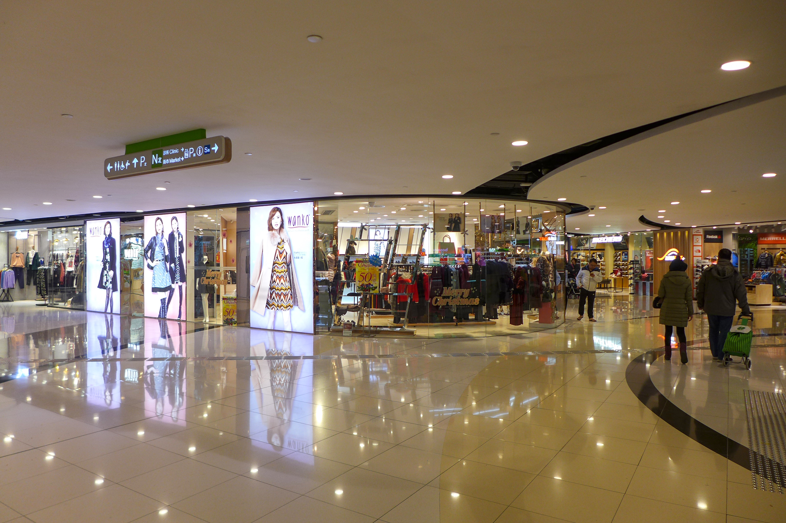 T Town North